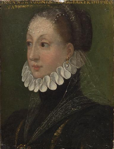 Portrait of Anna Trastámara d'Aragona (1544 - c.1567), wife of Vespasiano I Gonzaga